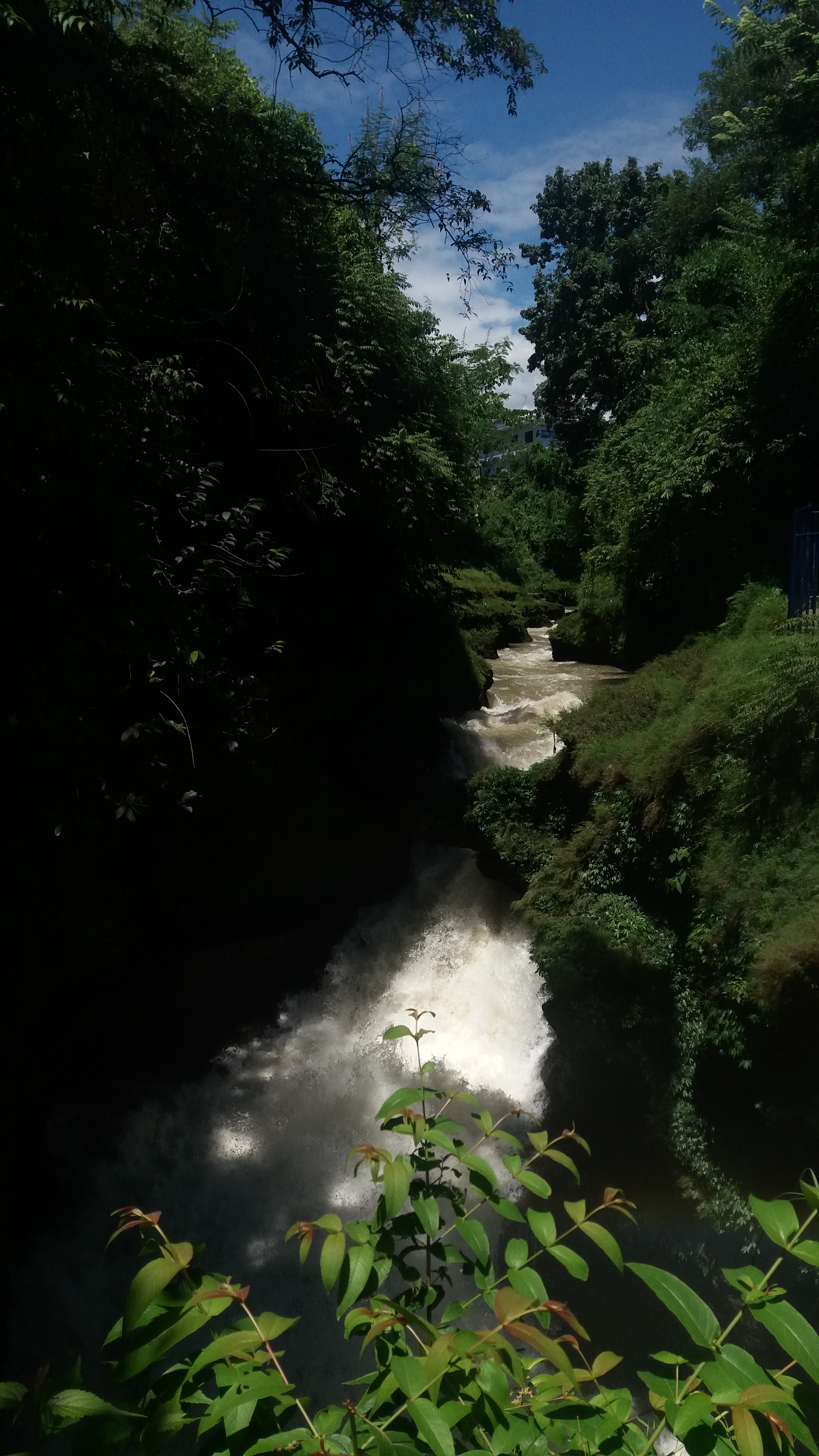 Patale chago1